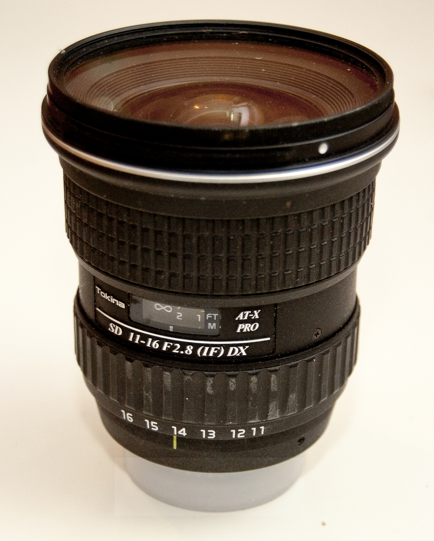 super wide lens Tokina 11-16mm 2.8 DX